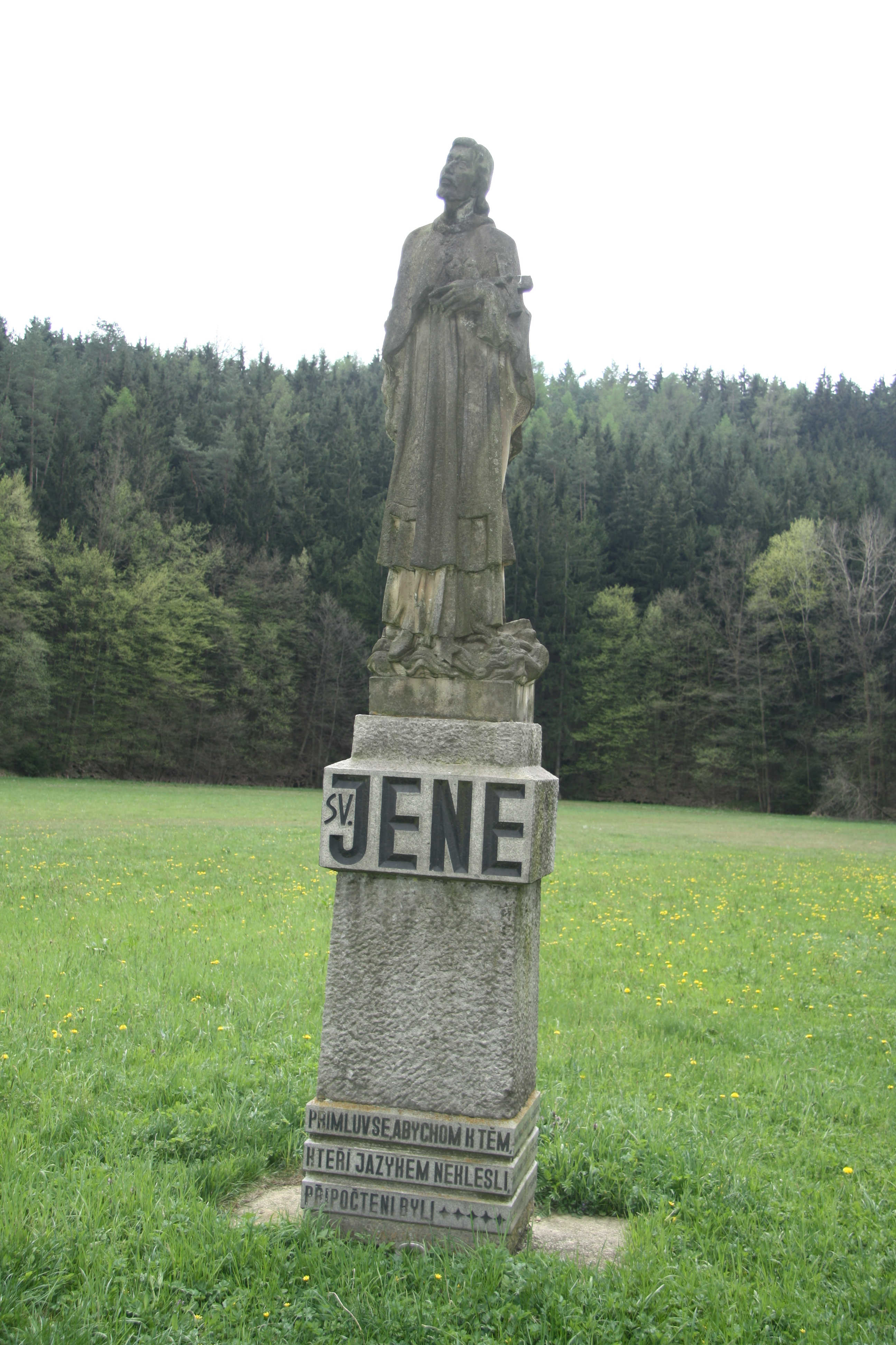 Statue of Saint John of Nepomuk near Lesní Jakubov, Třebíč District.